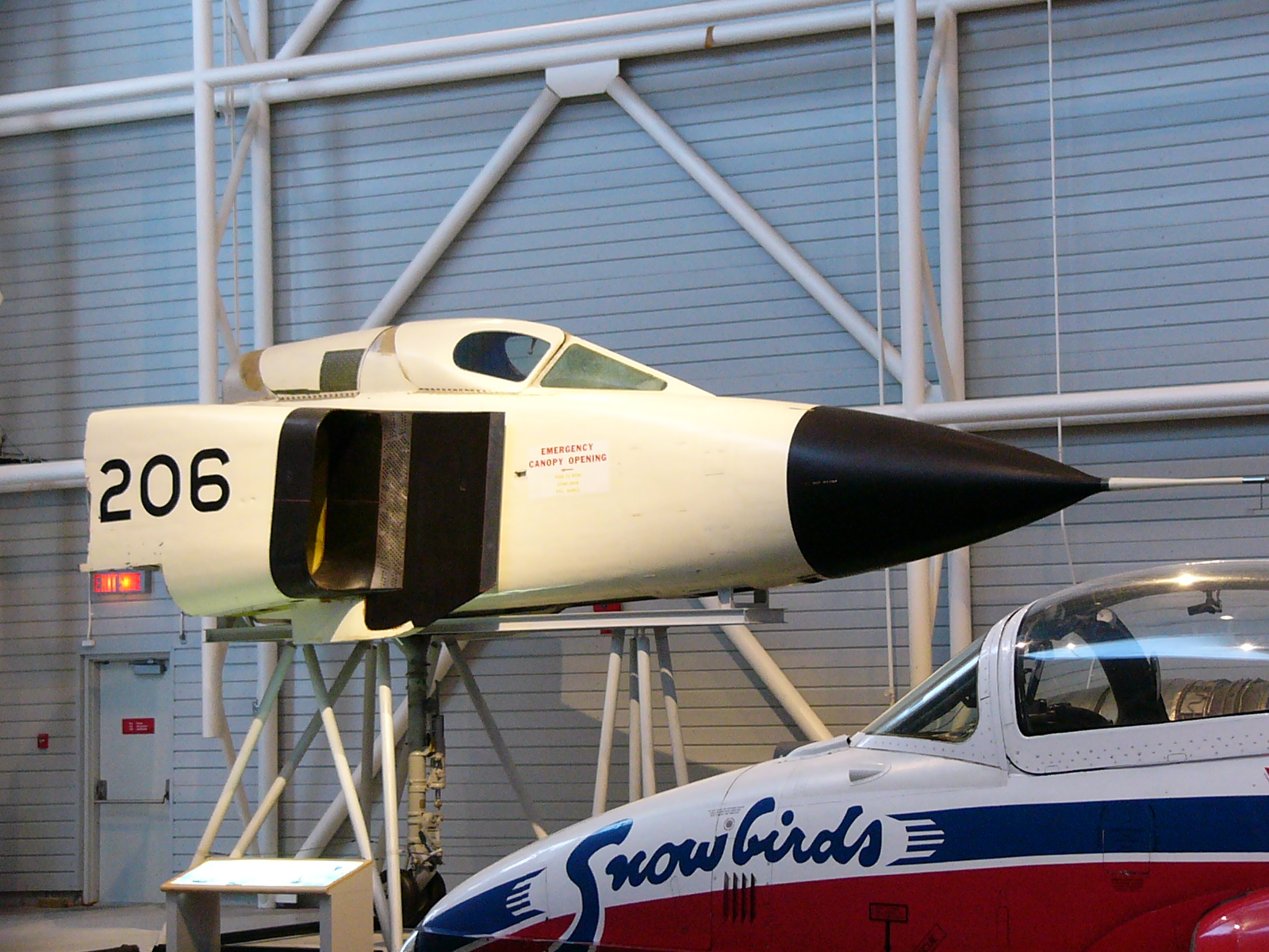 Avro CF-105 Arrow RL206 Serial 25206 nose section on display at the Canada Aviation Museum in Ottawa Ontario, 09 Oct 2006